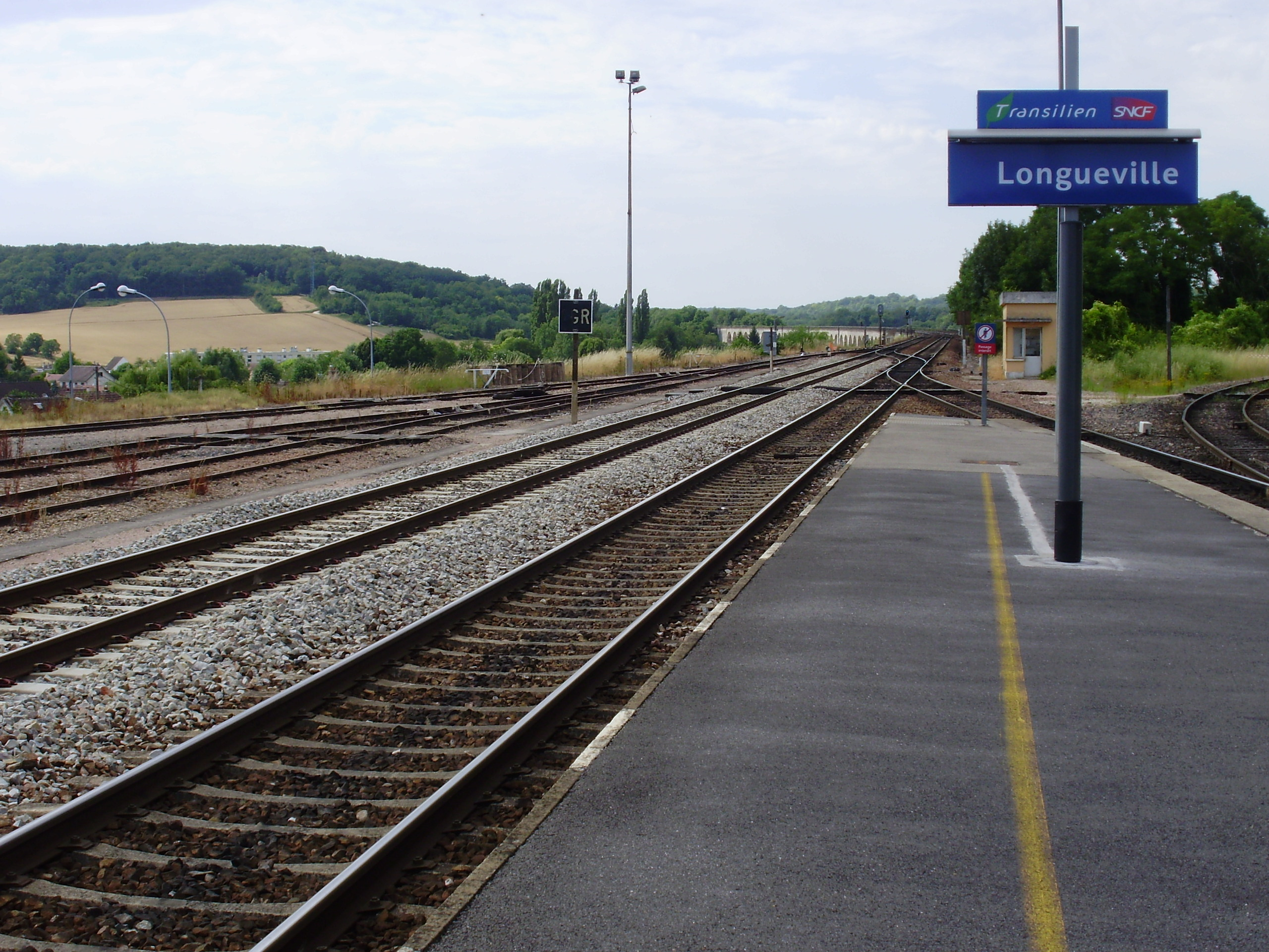 North-west extremity of a platform in Longueville station, Seine-et-Marne, France (view towards the Longueville railway bridge towards Paris)